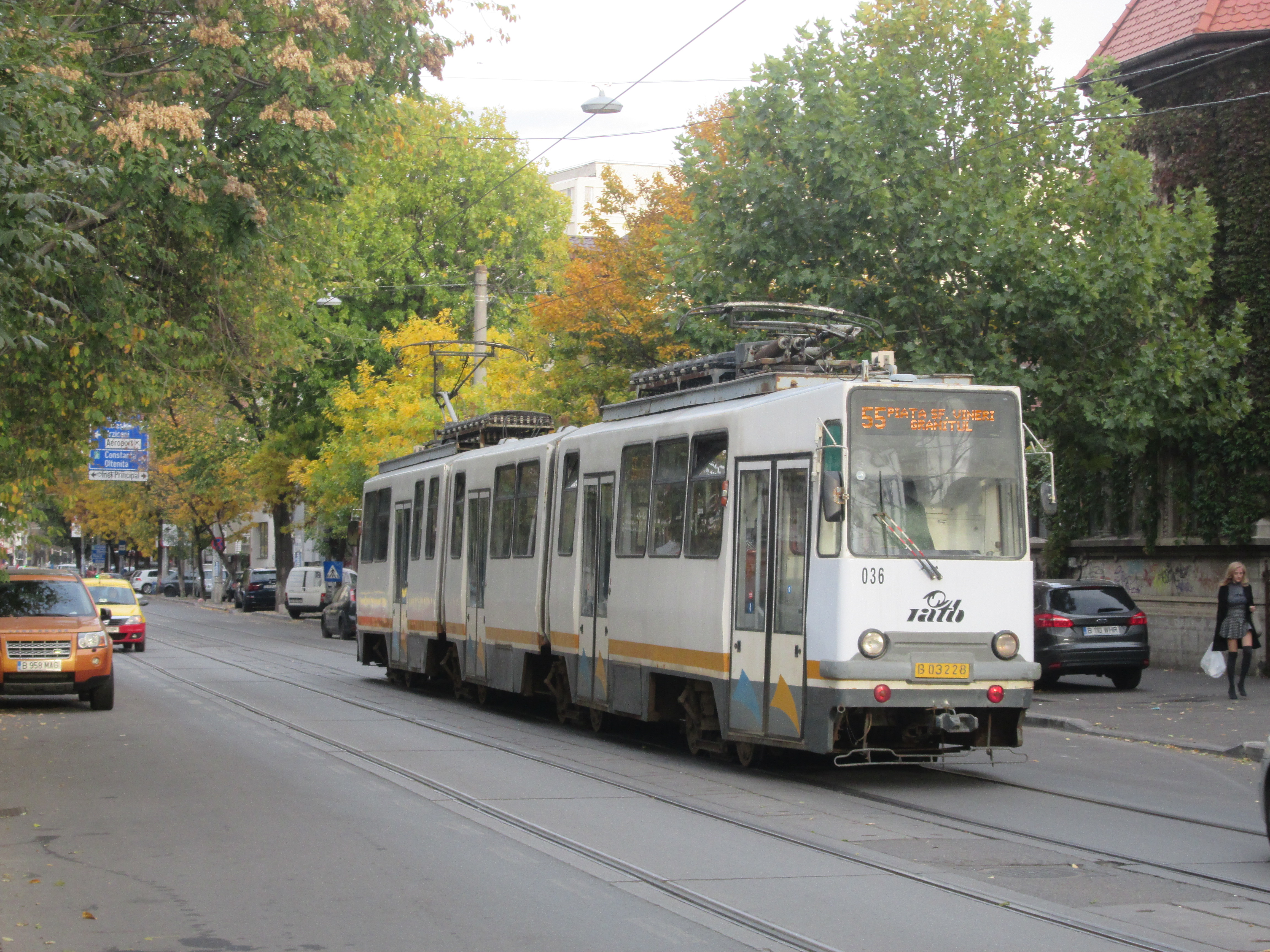 Tram number 037 (type V3B-93) on line 55 on Pache Protopopescu boulevard